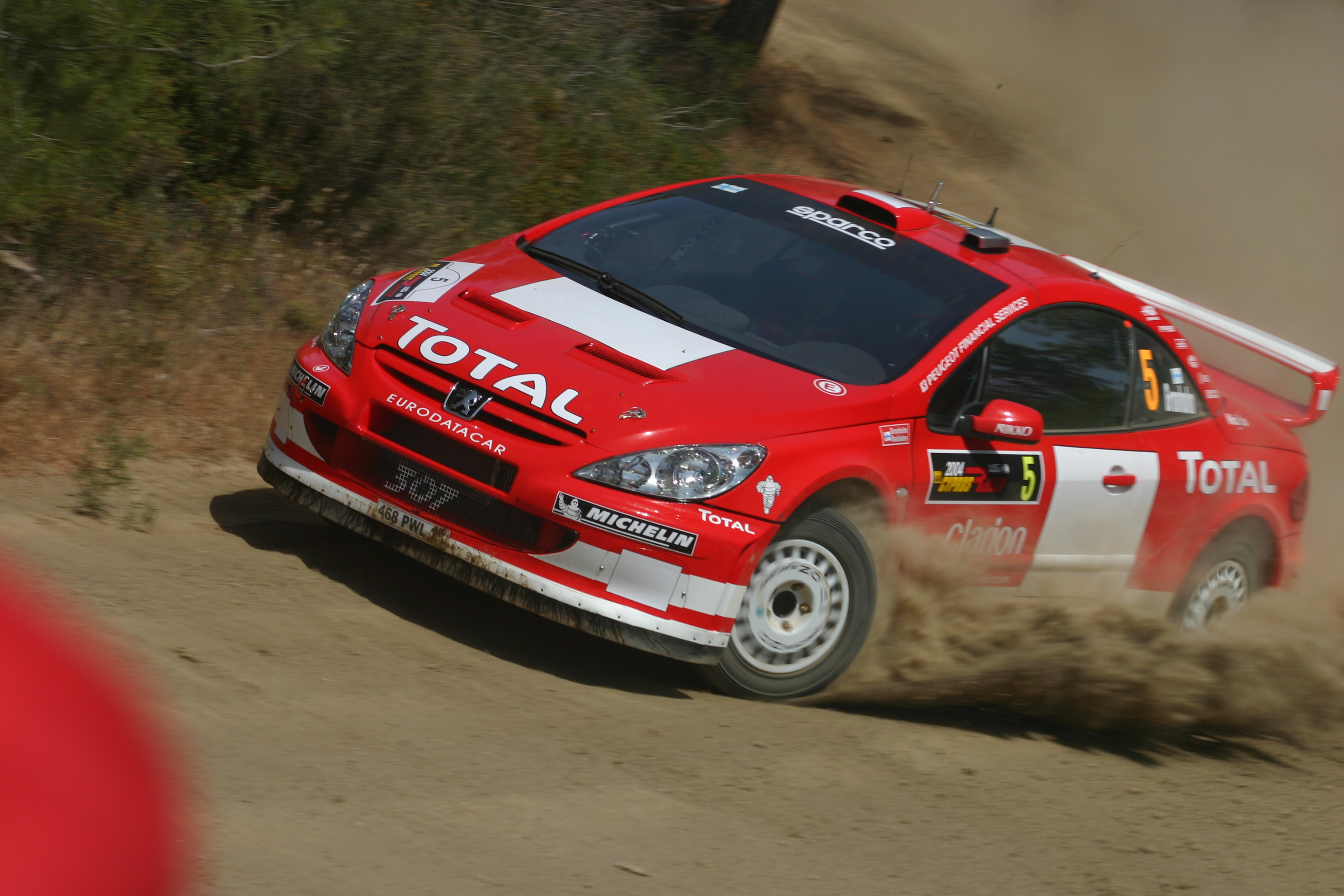 Marcus Grönholm driving his Peugeot 307 WRC during the shakedown of the 2004 Cyprus Rally.